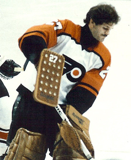 1987 Photo of Philadelphia Flyers goalie, Ron Hextall, on ice